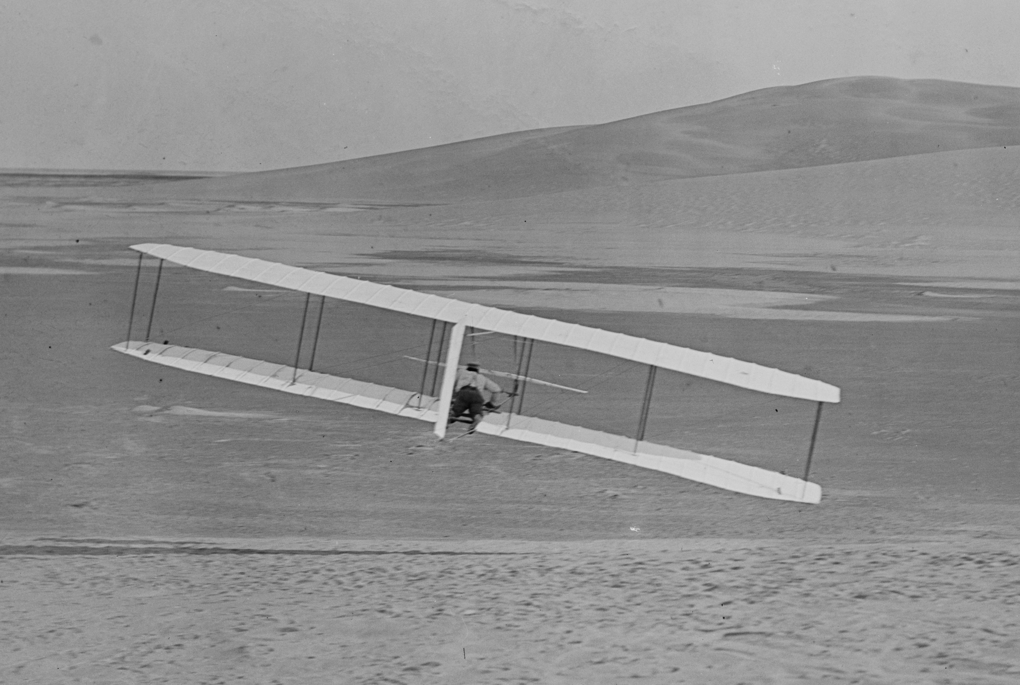 Rear view of Wilbur Wright making a right turn with the Wright Glider ("in glide from No. 2 Hill, right wing tipped close to the ground").